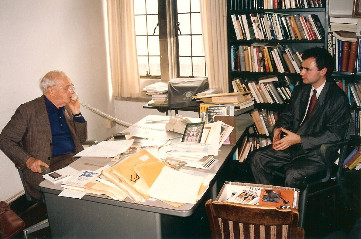 Photograph taken during the Stojanovic's interview with Saul Bellow at the University of Chicago.